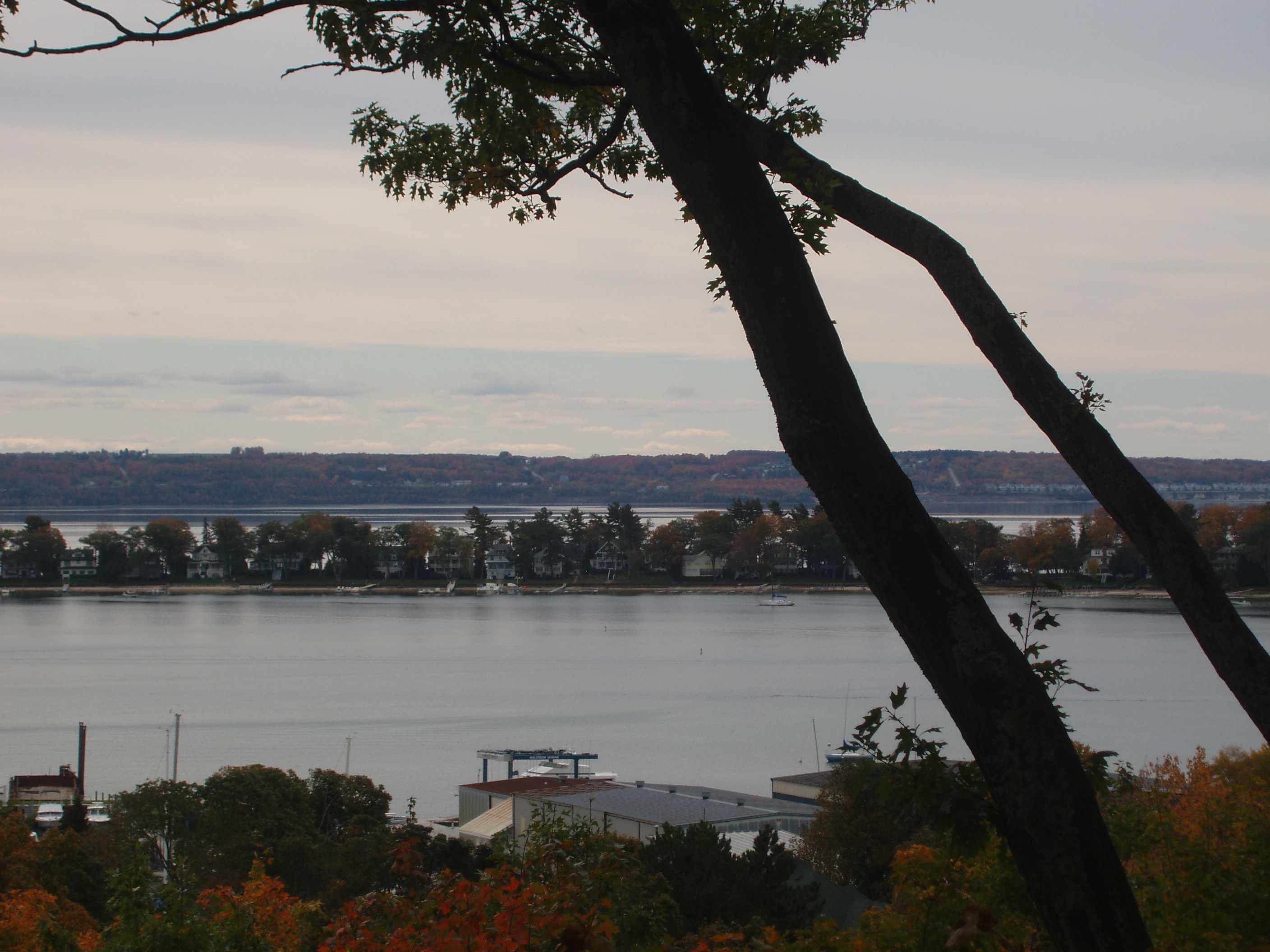 view from atop Harbor Springs' Bluff